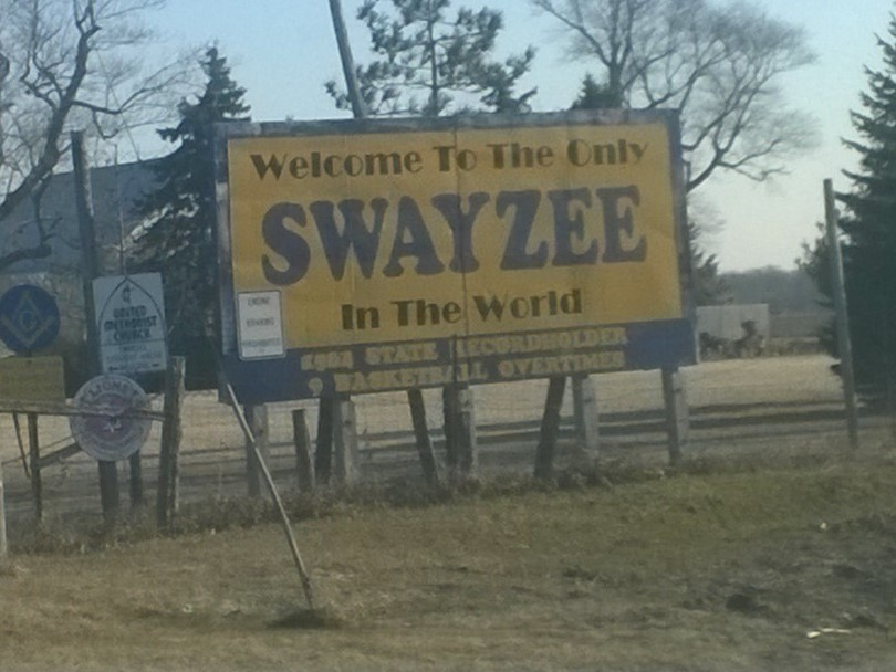 Swayzee, Indiana